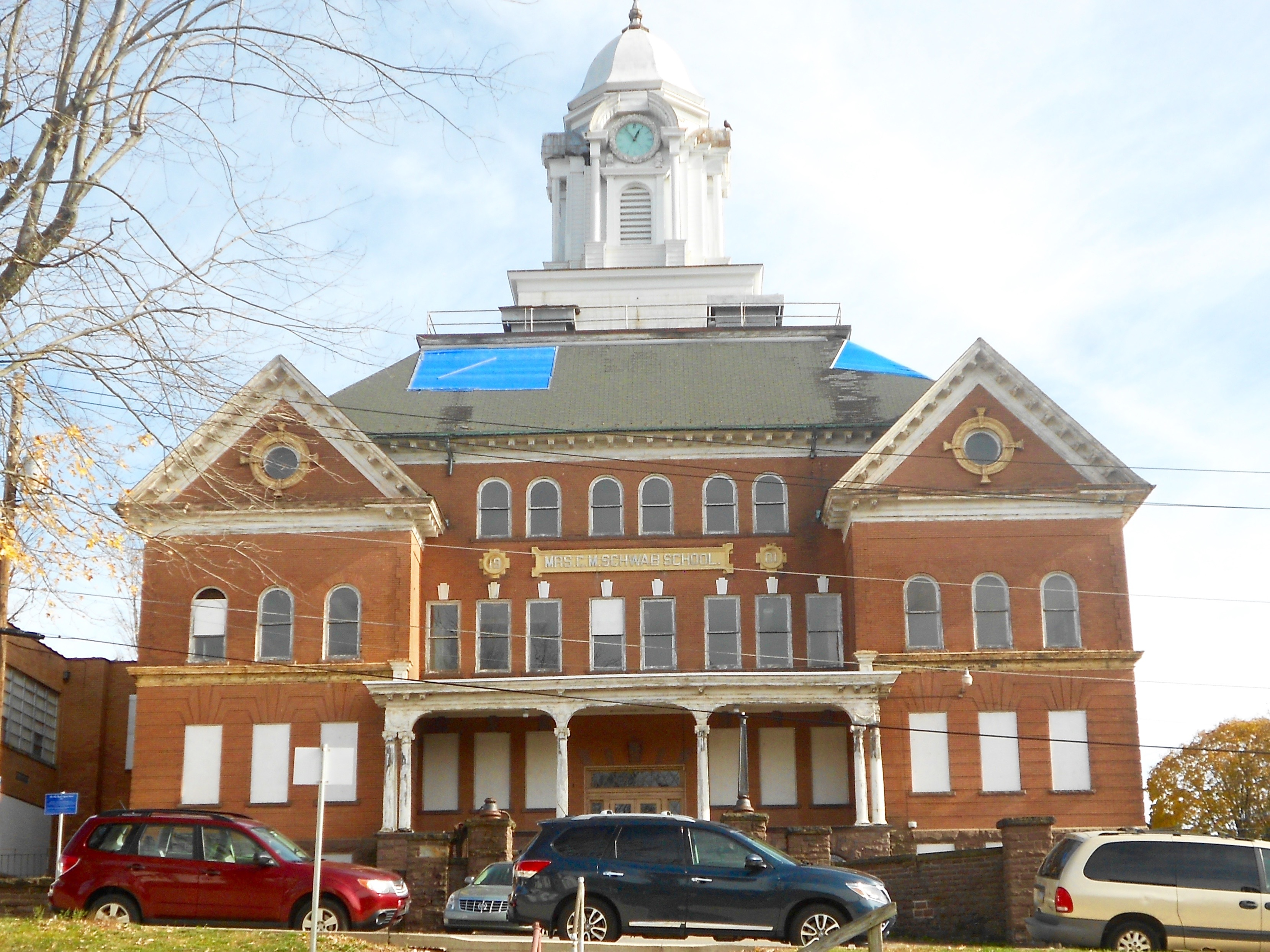 The former Mrs. C.M. Schwab School in Weatherly, Carbon County, Pennsylvania. Mrs. C.M. Schwab, born Emma Eurana Dinkey, grew up in Weatherly and married the steel magnate Charles M. Schwab. They donated $70,000 - $85,000 (different sources) to build the school. It operated from 1901-1991. It appears to be empty now, but in fairly good condition, though the blue canvas on the roof suggests a leaky roof. Sited high on the hill above a creek as you enter town. Not listed on the NRHP, though it very well could be.